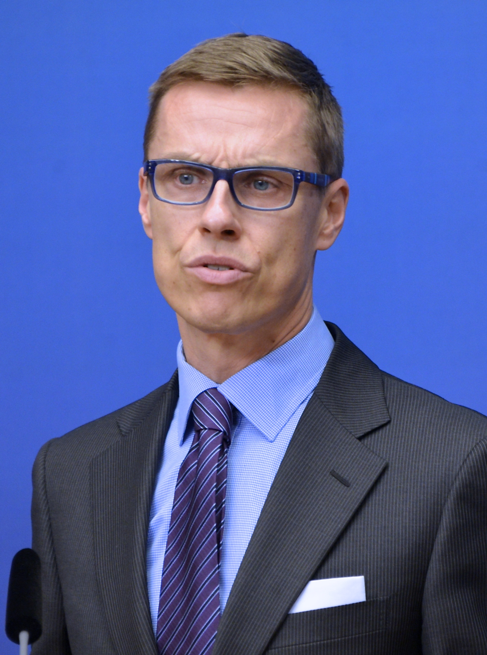 Alexander Stubb on the press conference with the Nordic and Baltic prime ministers before the Nordic Council Session in Stockholm October 27, 2014.